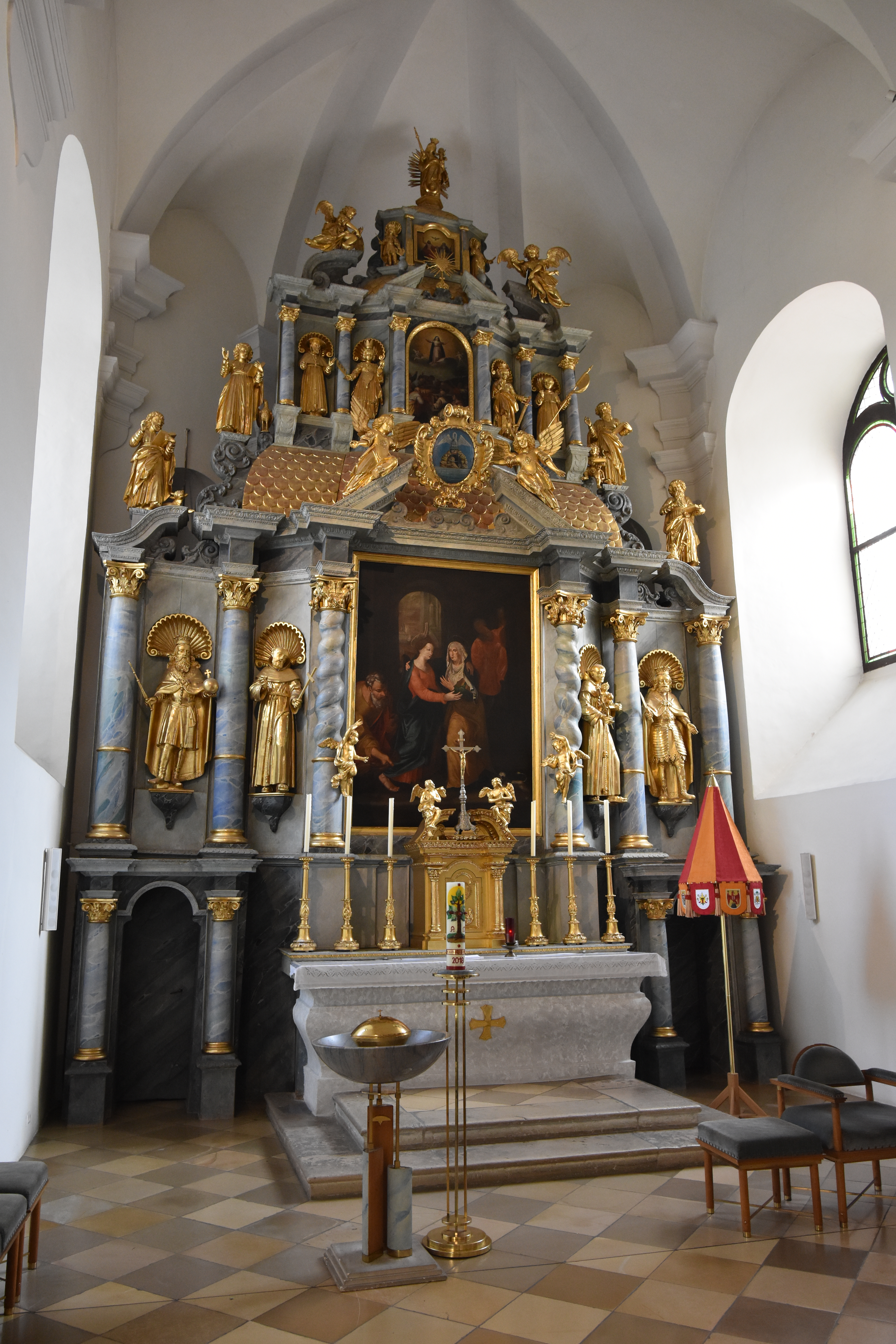 Franciscan monastery and church (Güssing) - Interior